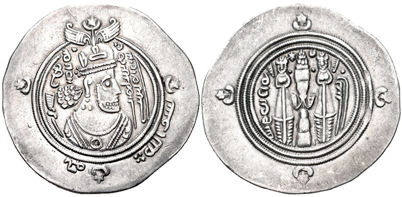 ISLAMIC, Umayyad Caliphate. al-Muhallab ibn Abi Sufra. Zibayrid governor, circa AH 75-79 / AD 694-698. AR Drachm (31.5mm, 3.93 g, 9h). Arab-Sasanian type. BYŠ (Bīshāpūr) mint. Dated AH 75 in Pahlavi (AD 694/5). Crowned bust right; in outer margin to right, bismillah in Arabic, followed by ::, mw in Pahlavi to left / Fire altar with ribbons and attendants; star and crescent flanking flamesa. SICA 1 207; Walker, Arab-Sasanian, 221-3; Album 31; ICV 39. Good VF, light scratches in obverse margin.